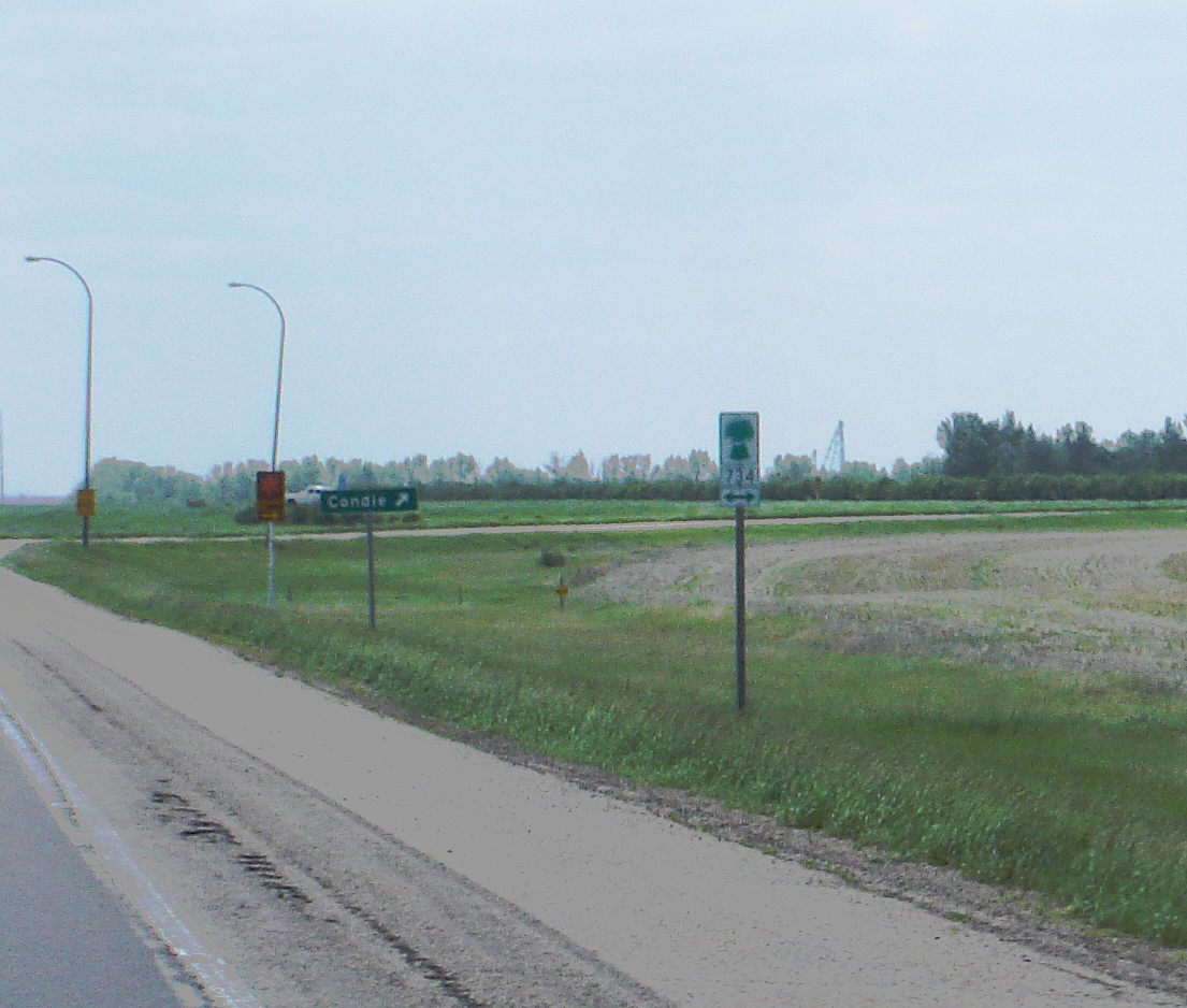 Saskatchewan Highway 34 - Condie Road Signage Photo taken from Saskatchewan Highway 11, Louis Riel Trail travelling south from Saskatoon to Regina